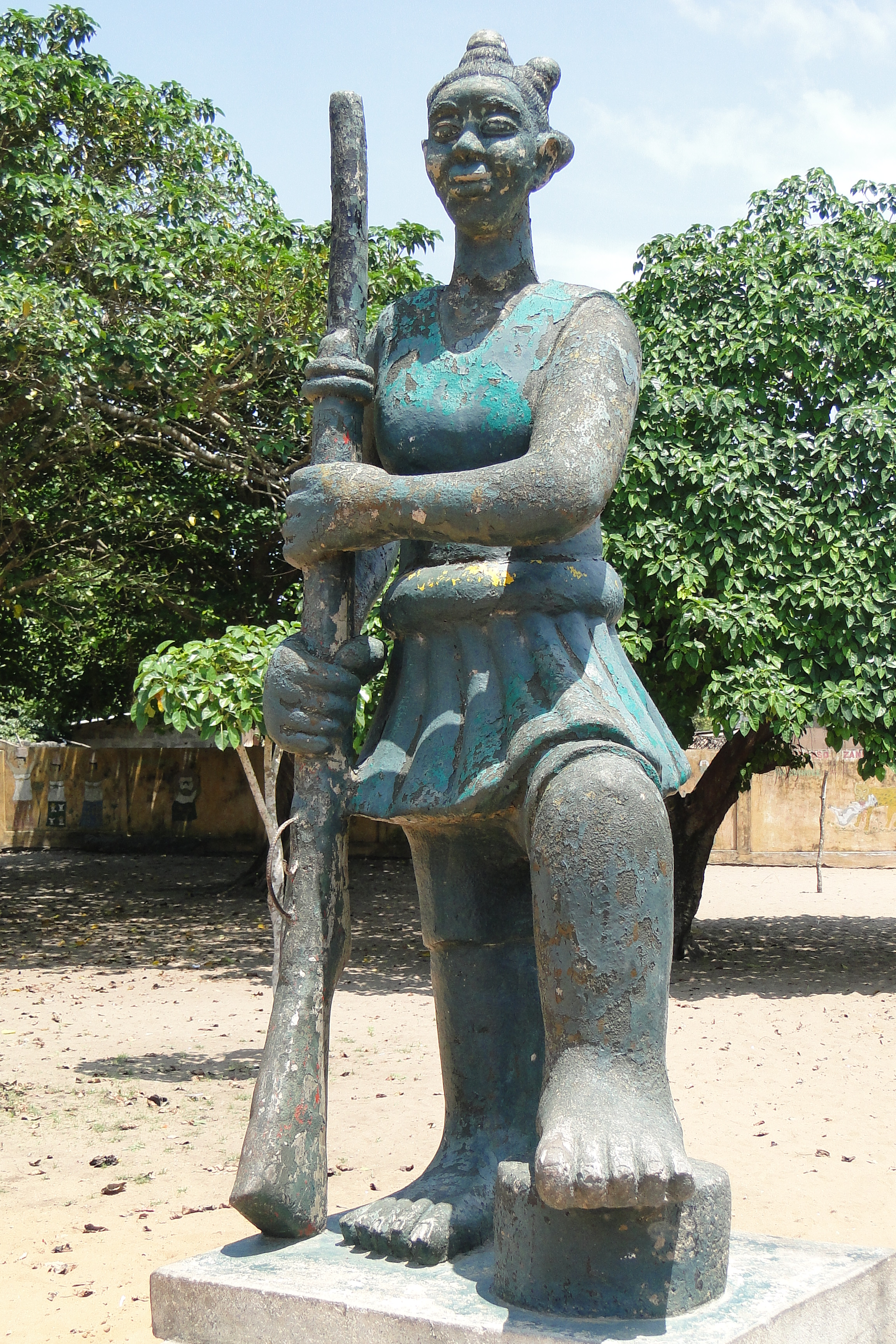 Sculpture of Amazon Female Warrior - Slave Route - Ouidah - Benin